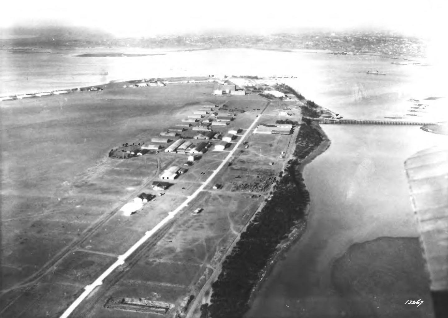 Rockwell Field during World War I (1917) — in Coronado, across San Diego Bay from San Diego, California.